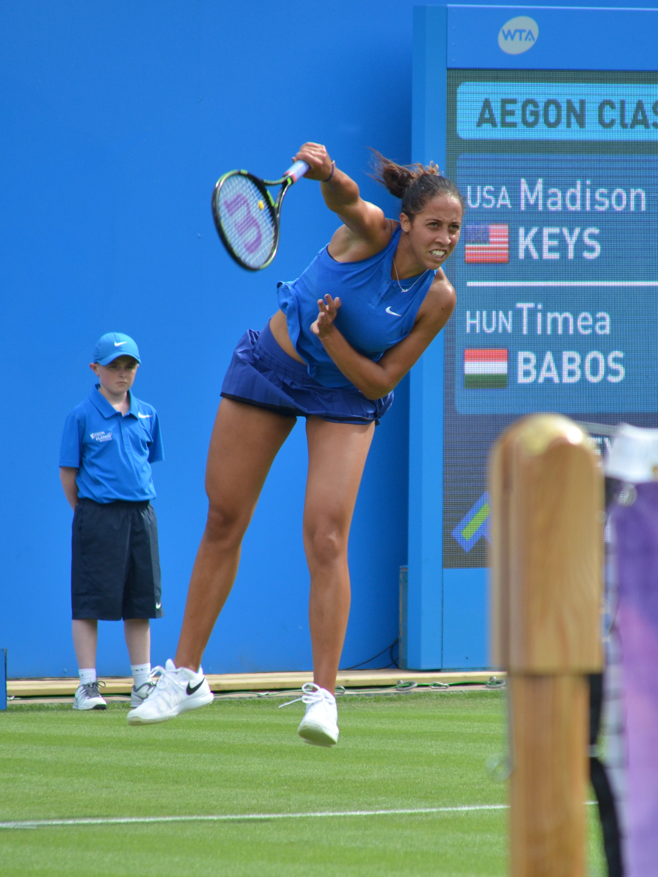 Madison Keys serving at 2016 Aegon Classic where she won the title